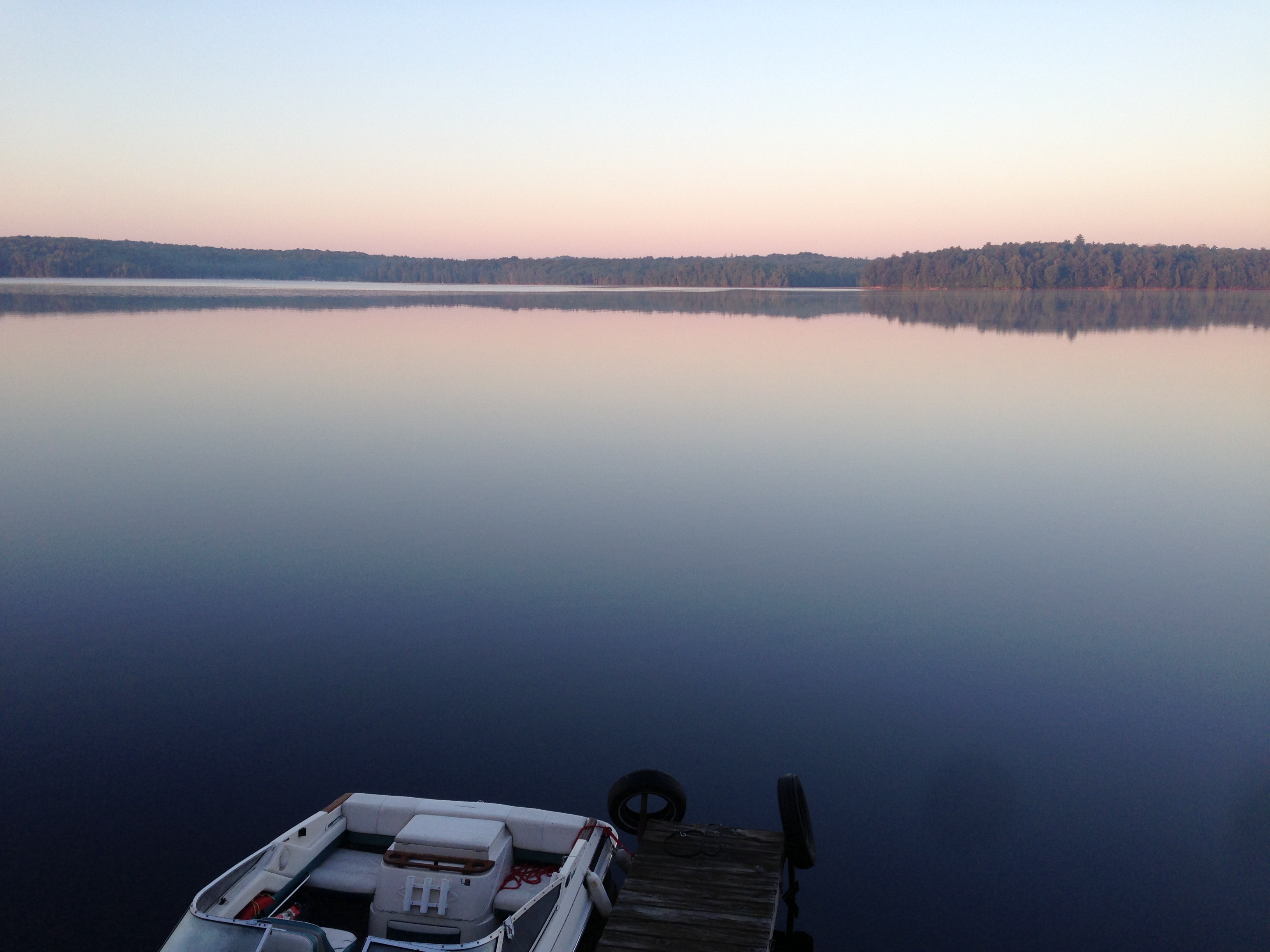 How calm Ahmic Lake gets